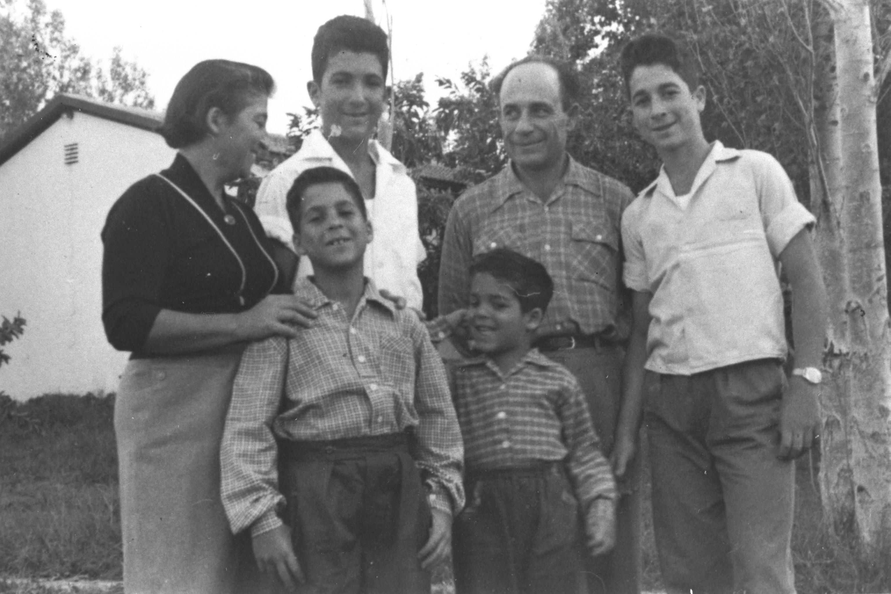 original description: EHUD BARAK (BEHIND, 2ND FROM L) & HIS MOTHERS & BROTHERS.